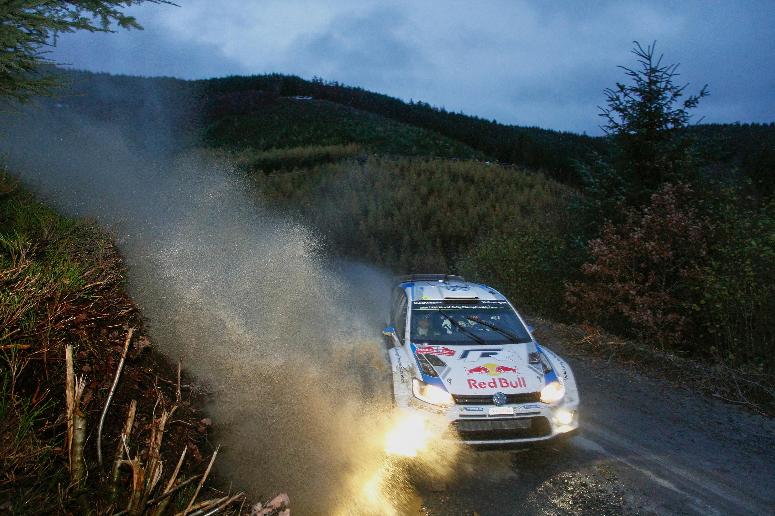 Sébastien Ogier and co-driver Julien Ingrassia in their VW Polo R WRC at the 2014 Wales Rally GB.